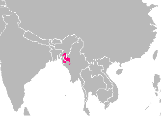 Approximate extension of the traditional area of the Kuki people [